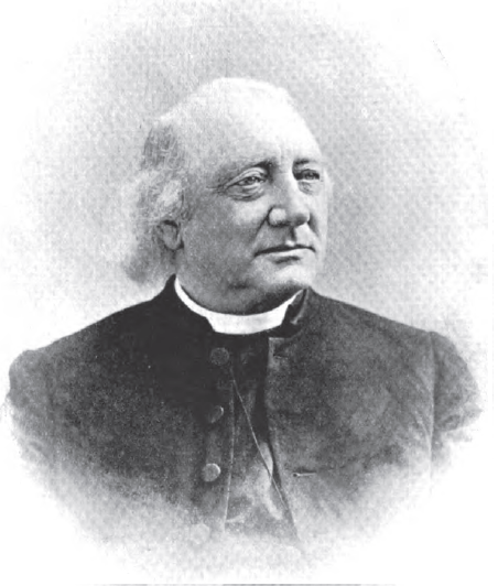 Portrait of Gregory Thurston Bedell